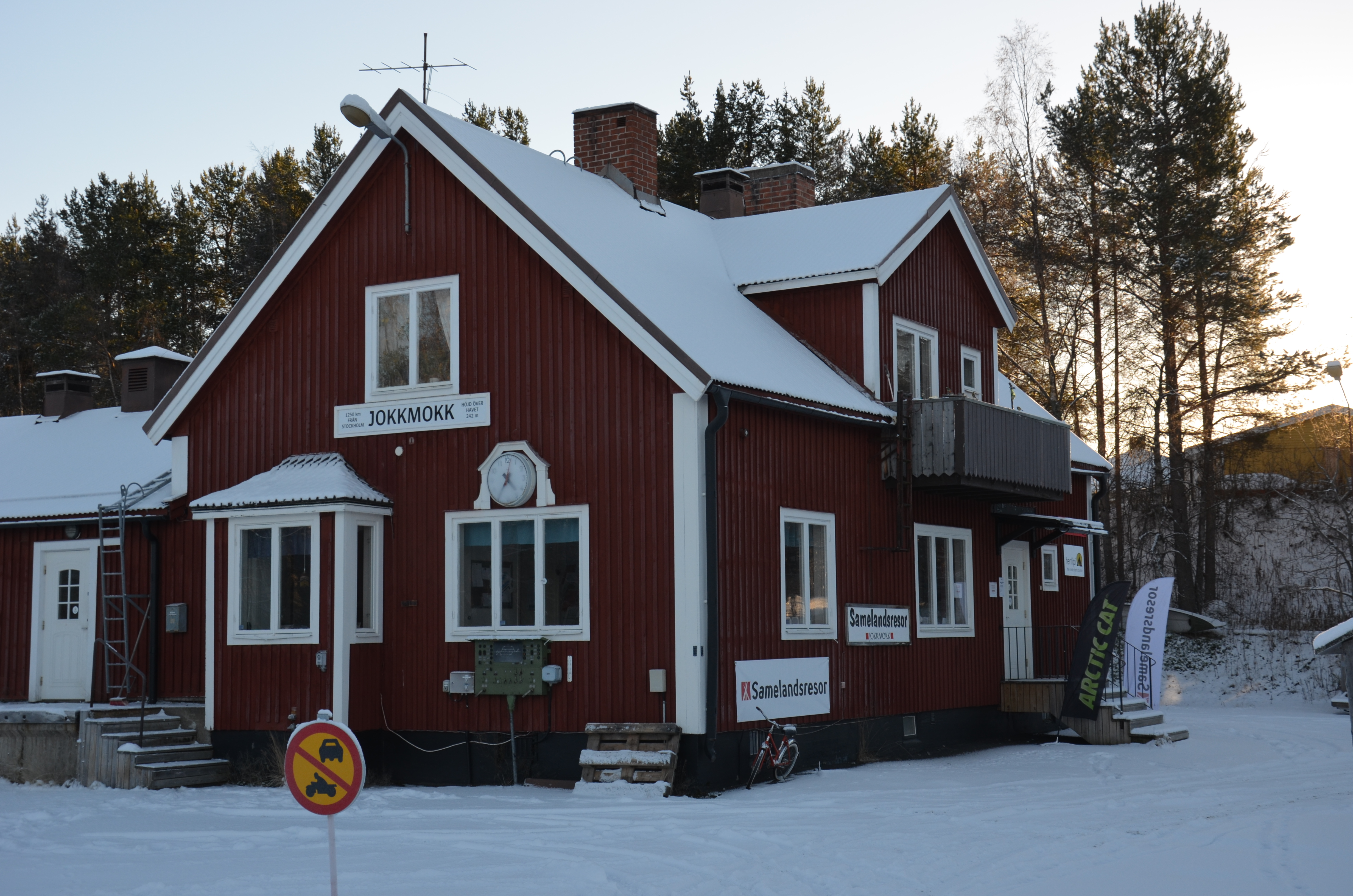 Jokkmokks järnvägsstation